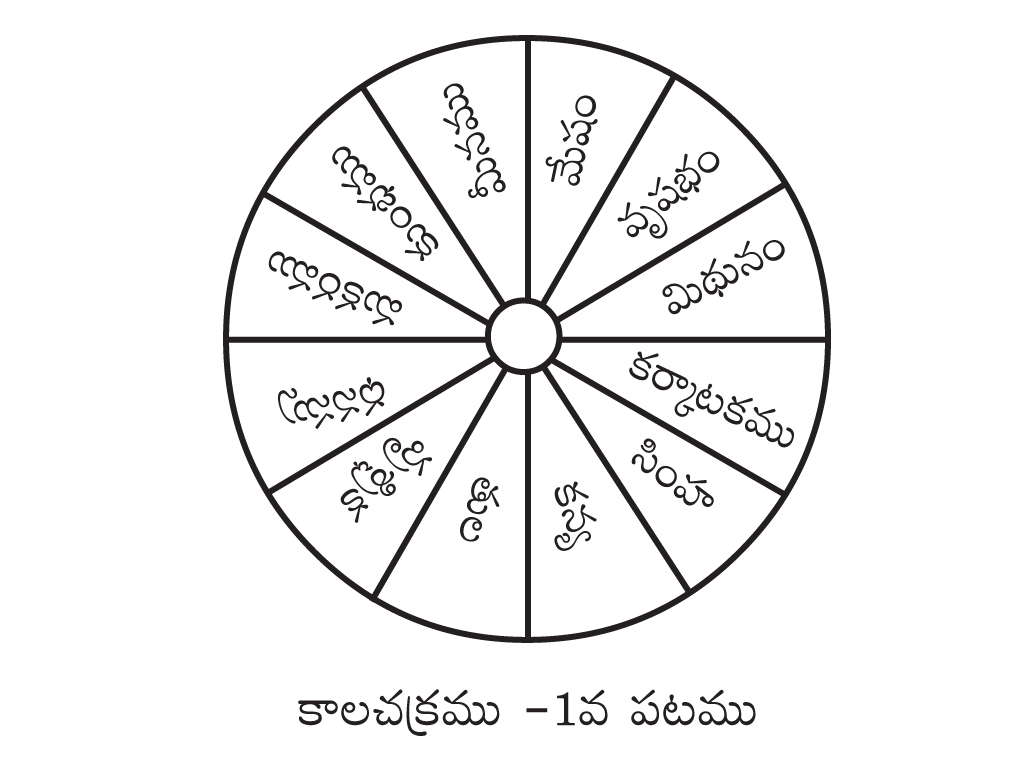 Kaala chakram